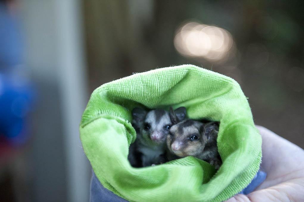 Baby Squirrel Gliders in care